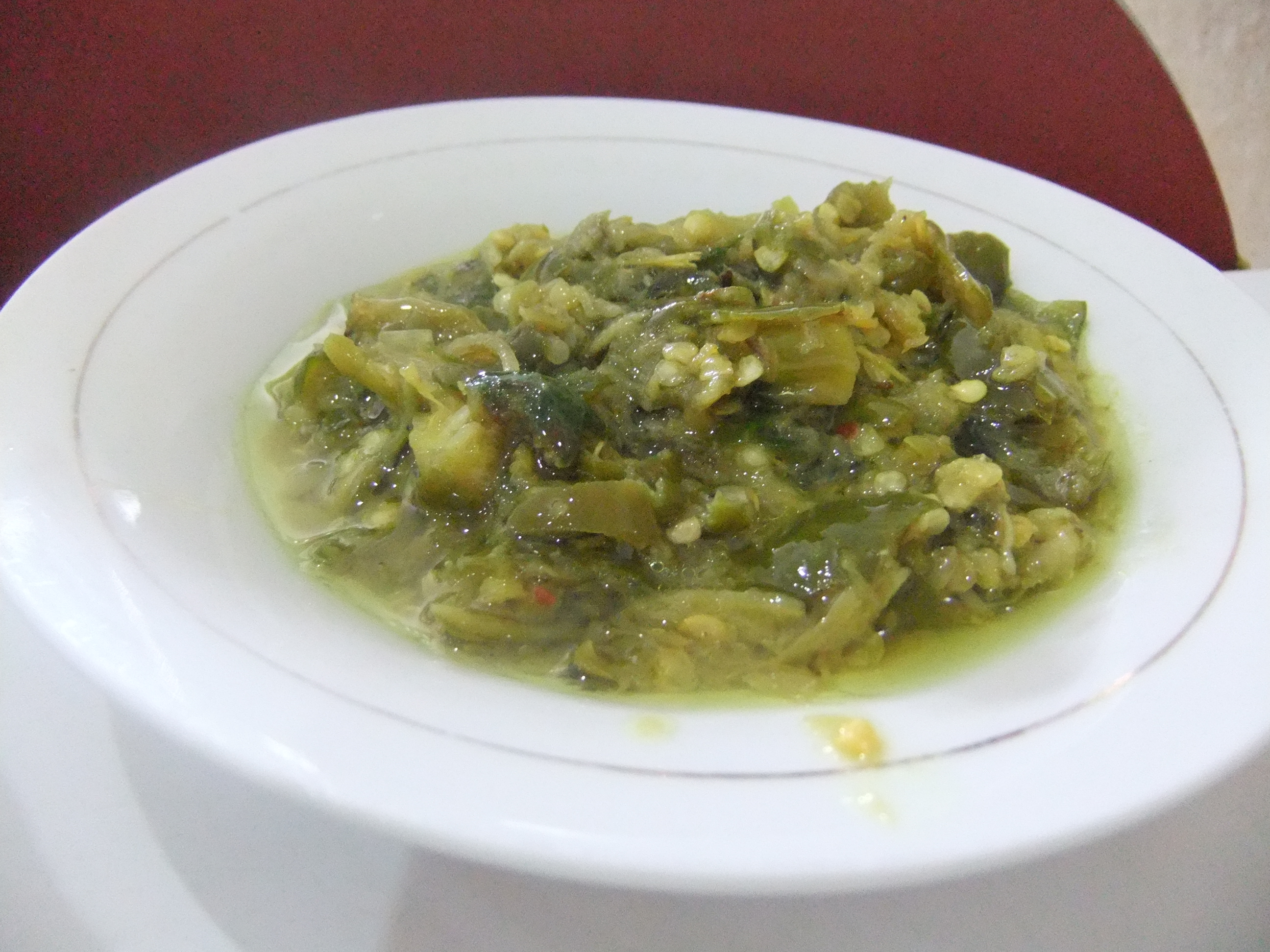 Sambal hijau masakan Padang